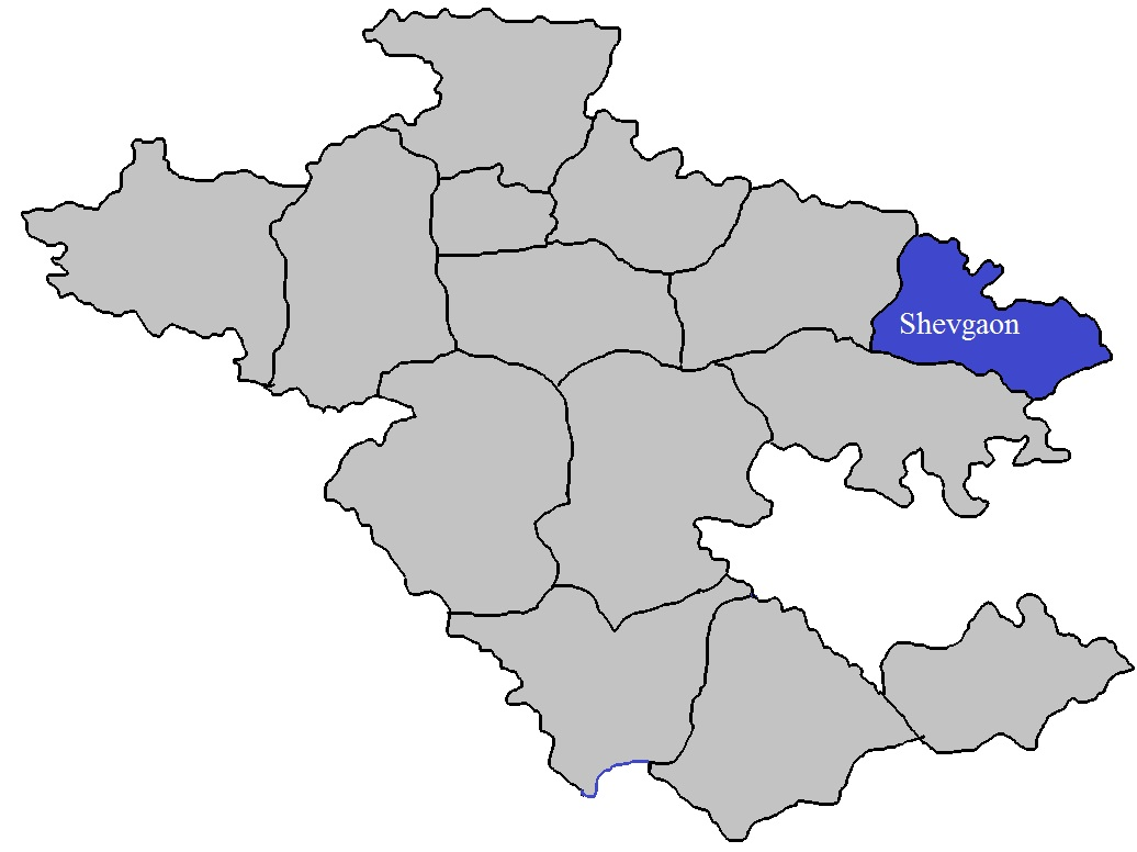 Shevgaon Tehsil in Ahmednagar District